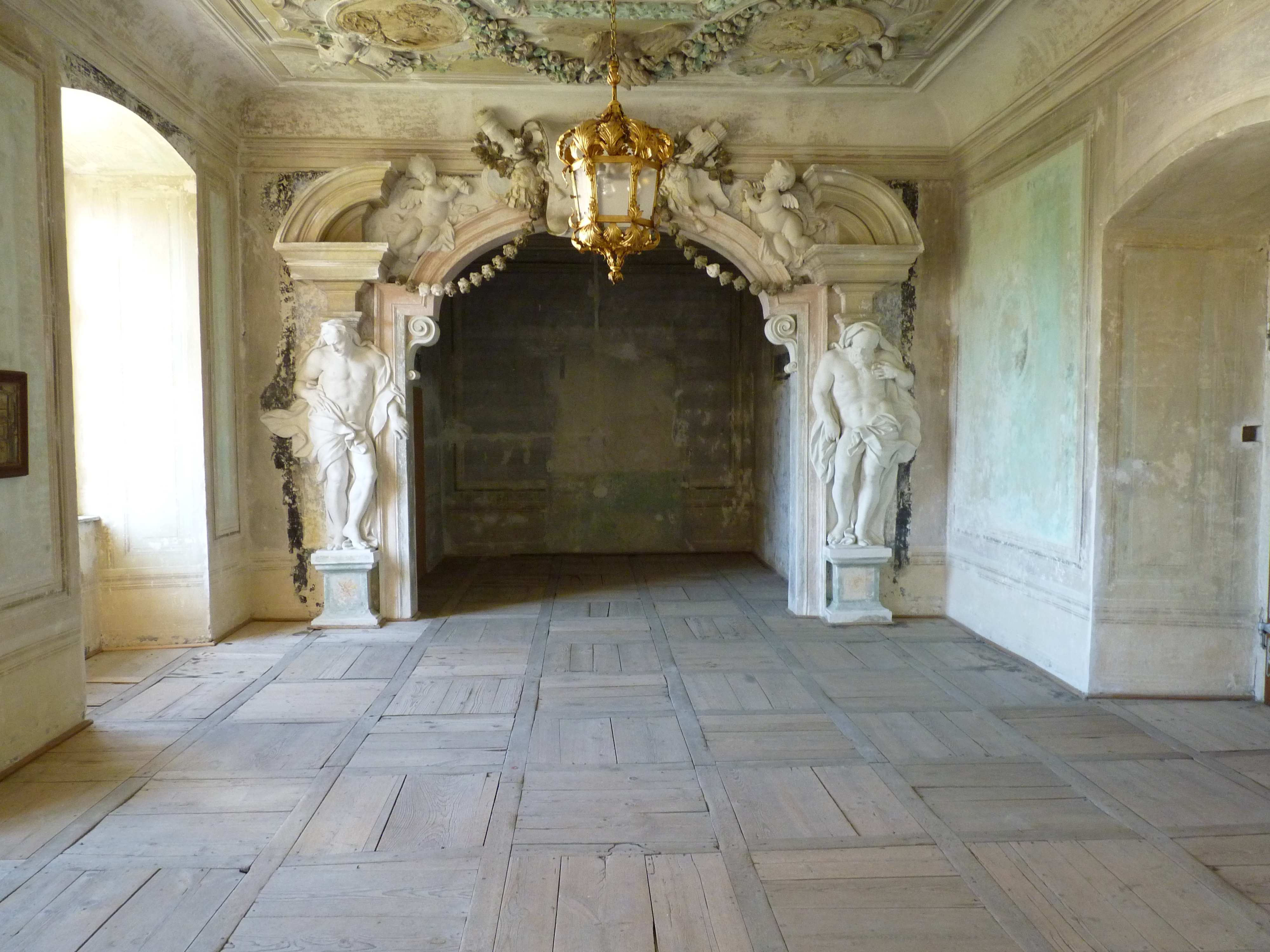 Uherčice Castle, Znojmo District, South Moravian Region, Czech Republic